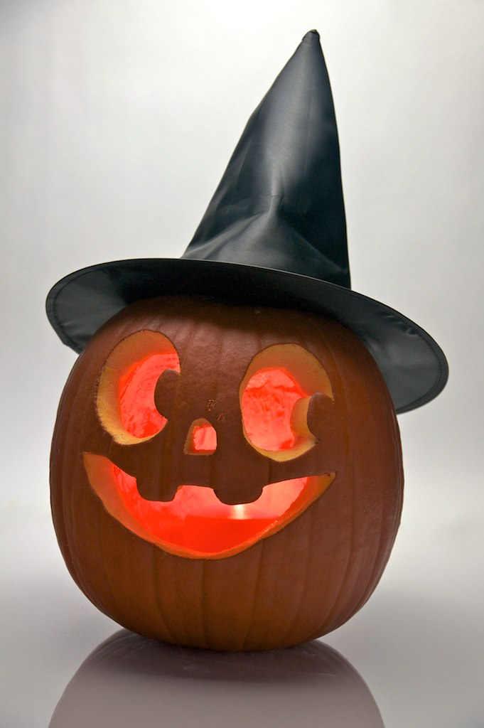 Halloween pumpkin with a witch hat.